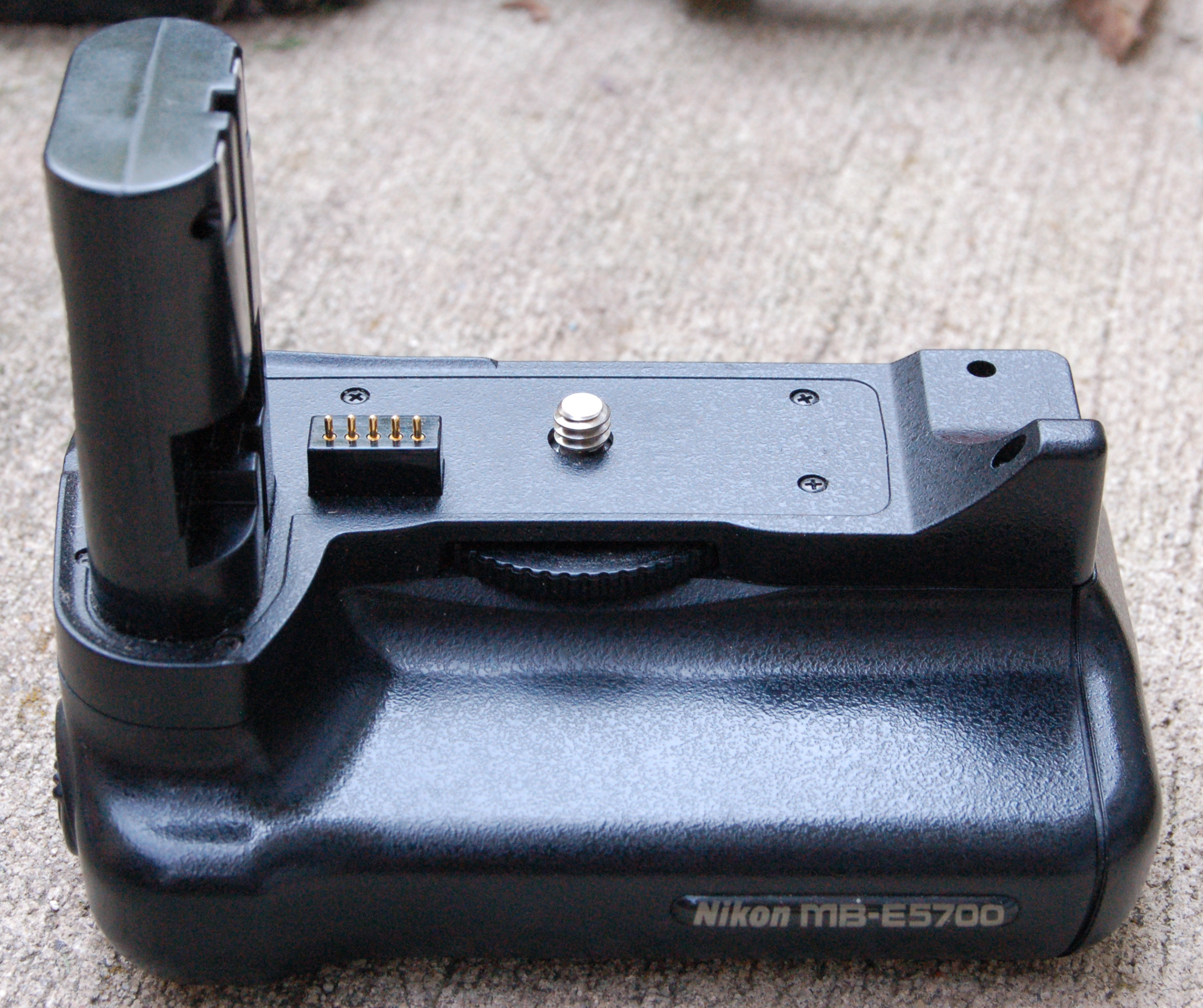 The Nikon MB-E5700 is an optional battery pack for the Nikon Coolpix 5700 and 8700 cameras. It uses 6 AA batteries and also has a vertical shutter release button and zoom buttons.